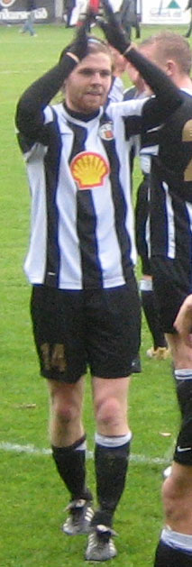 Viktor Bjarki Arnarsson, an Icelandic football player who plays for Lilleström, but is on loan at KR Reykjavík